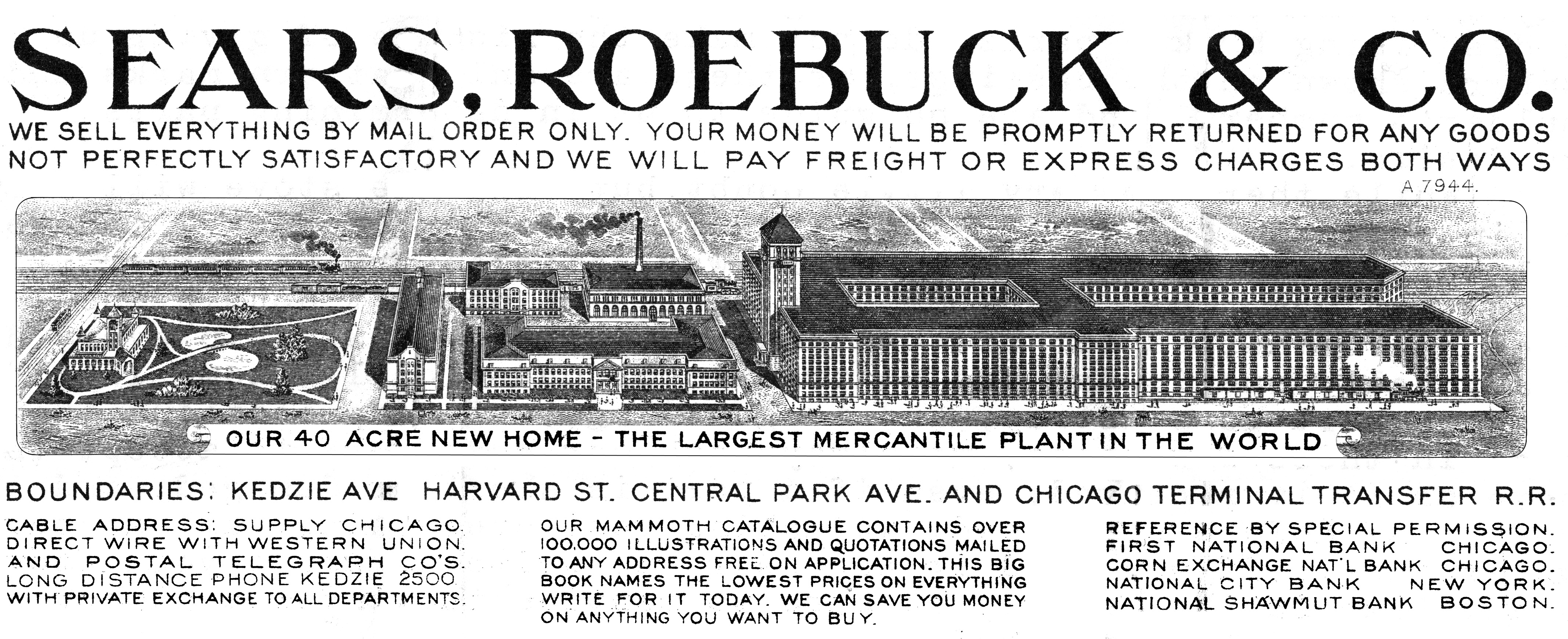 Sears, Roebuck & Co., Chicago, IL letterhead logo 1907